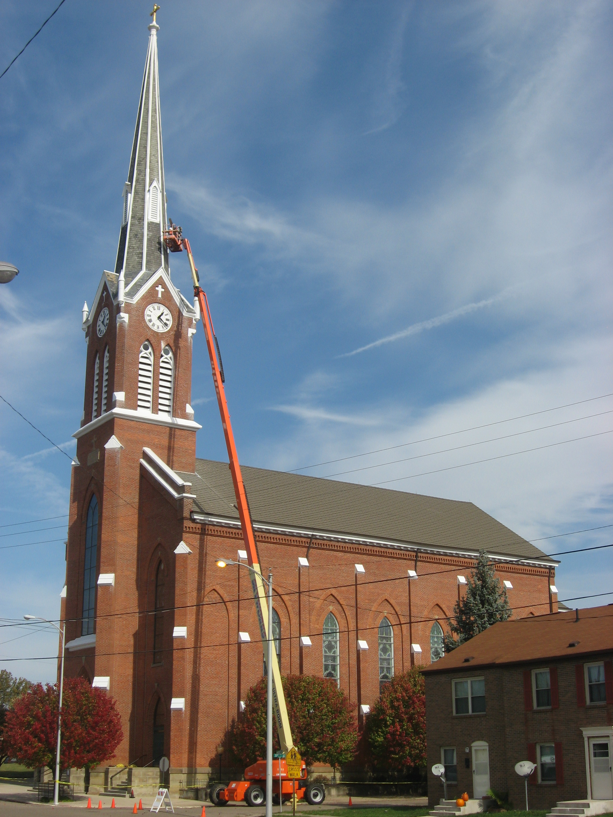 Front and southern side of St. Mary's Catholic Church, located on the northeastern corner of the junction of Fifth and Market Streets in Portsmouth, Ohio, United States. Built in 1870, it is listed on the National Register of Historic Places.